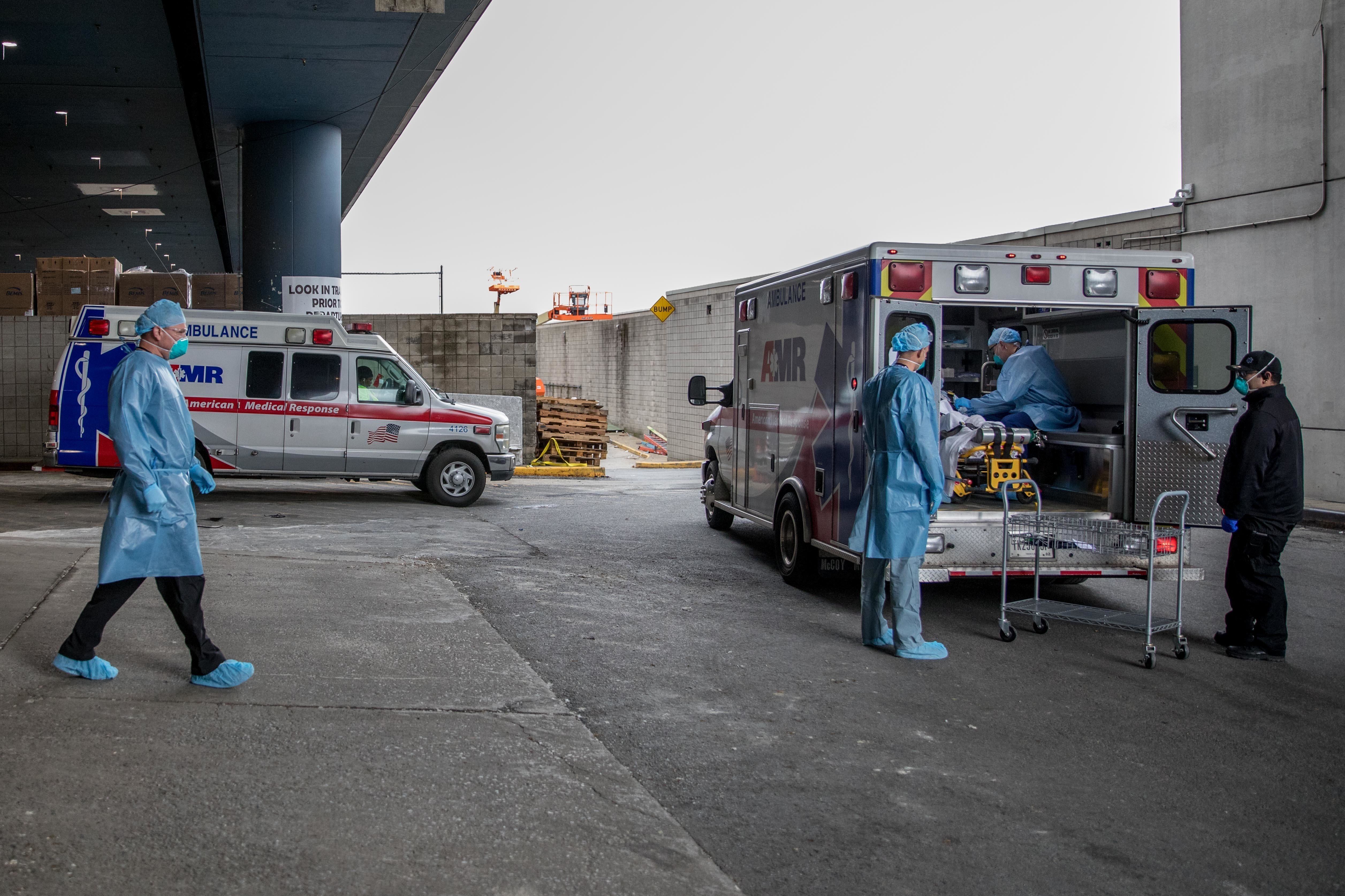 Medical personnel assigned to the Javits New York Medical Station (JNYMS) receive and screen a patient just outside the facility’s entry bay. Soldiers, along with Department of Health and Human Services personnel and other federal, state and local agencies began operating a federal medical station out of the JNYMS, March 30, to care for non-COVID-19 patients in an effort to relieve the burden on local hospitals, allowing them to focus on coronavirus patients. U.S. Northern Command, through U.S. Army North, is providing military support to the Federal Emergency Management Agency to help communities in need.